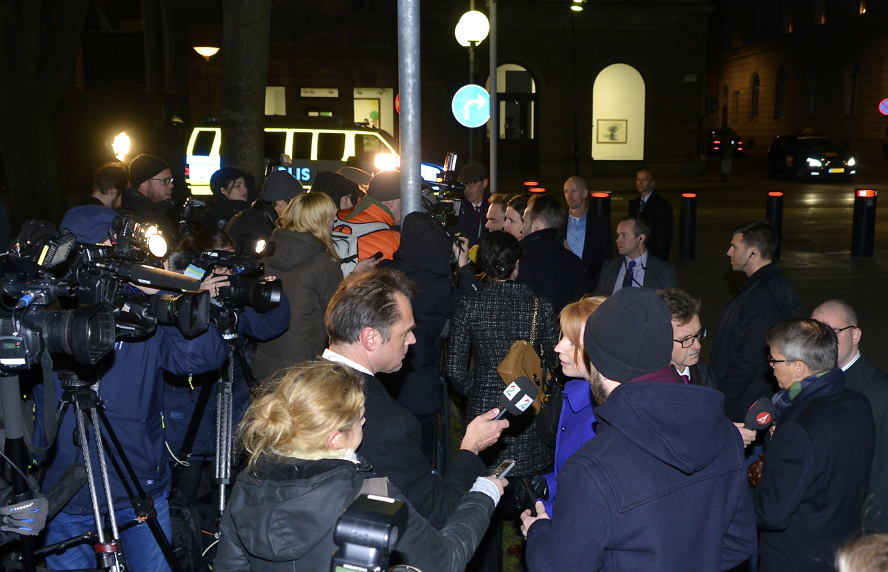 Alliance leaders invited to Rosenbad by Stefan Löfven after the Sweden Democrats earlier in the day said they vote for the alliance budget.